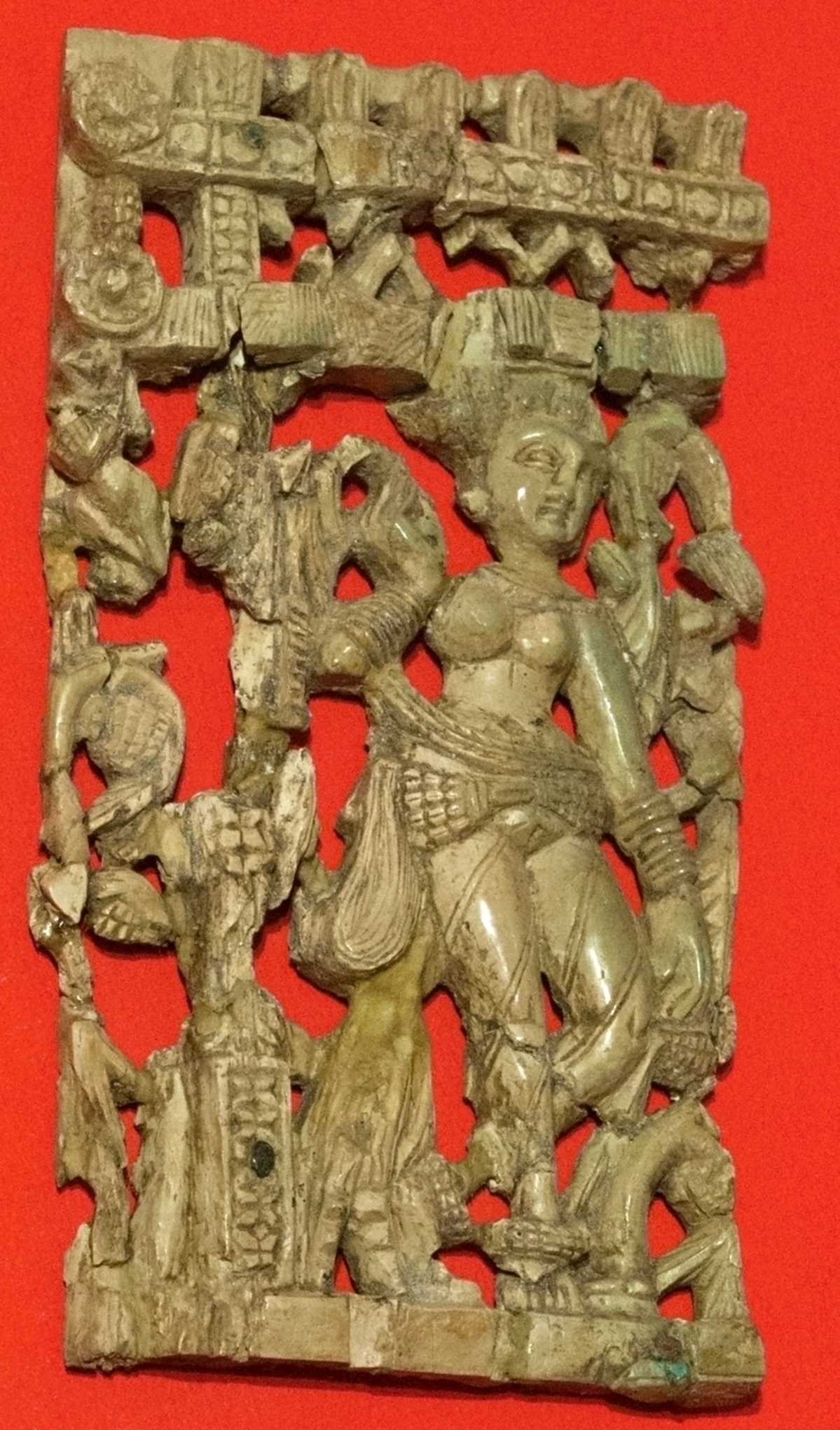 Fragment of a frieze depicting a scantily dressed female figure and architectonic articles. Bone; Bagram, 1st - 2nd century CE.